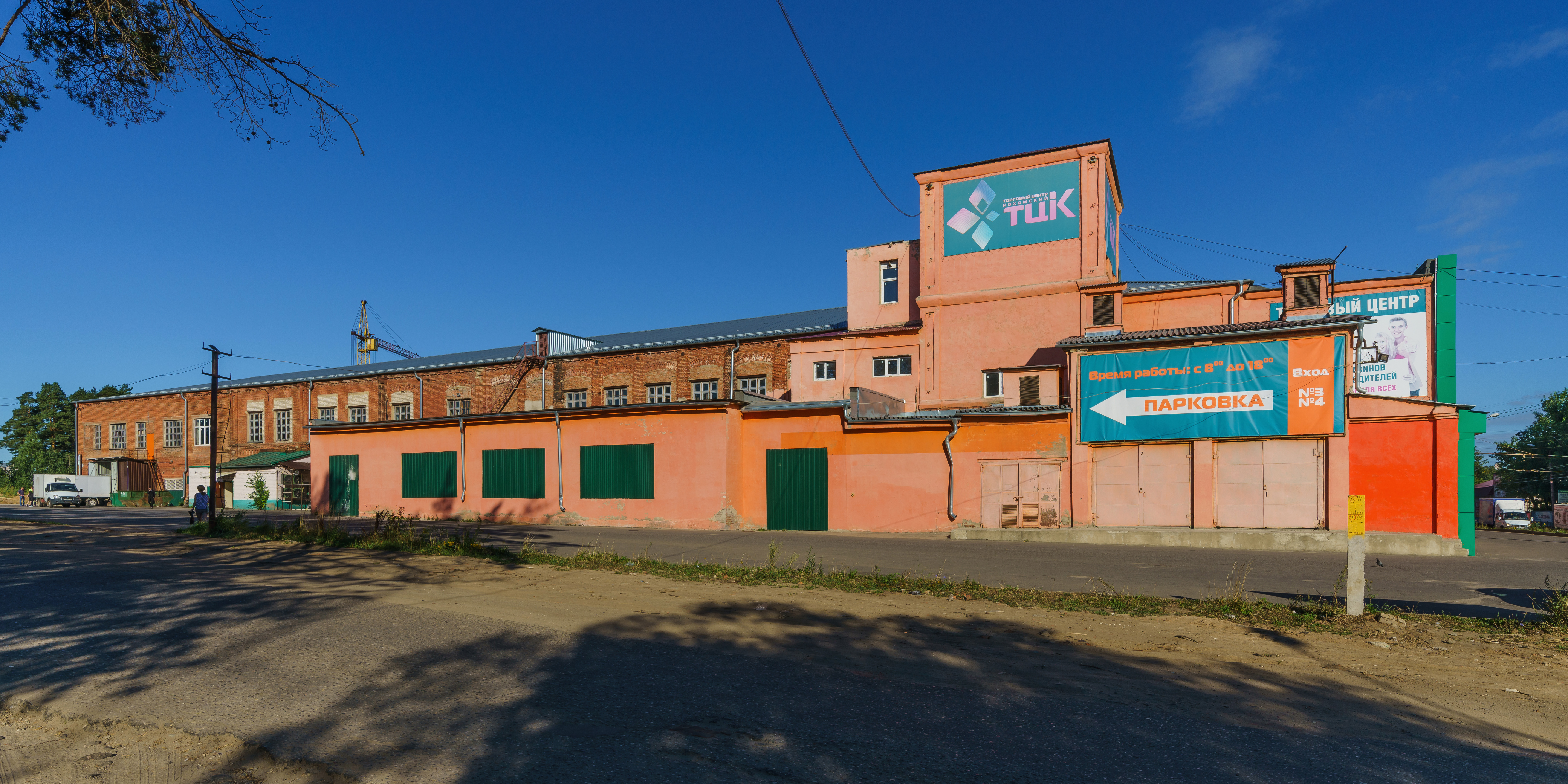 Former weaving mill in Kokhma, Ivanovo Oblast, Russia.